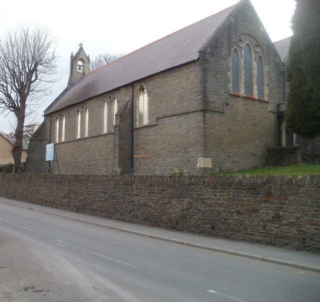 St Matthias Church, Treharris. Church in Wales church (diocese of Llandaff), located on the corner of Cardiff Road (B4254) and The Park. The church was built in 1896. The church name board shows The Parish of Treharris, Trelewis and Bedlinog 'Growing in Faith' St. Matthias Church.